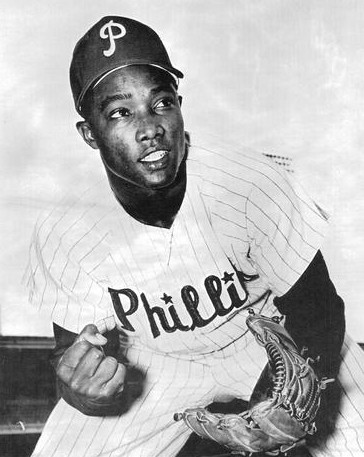 Professional baseball player Tony Taylor